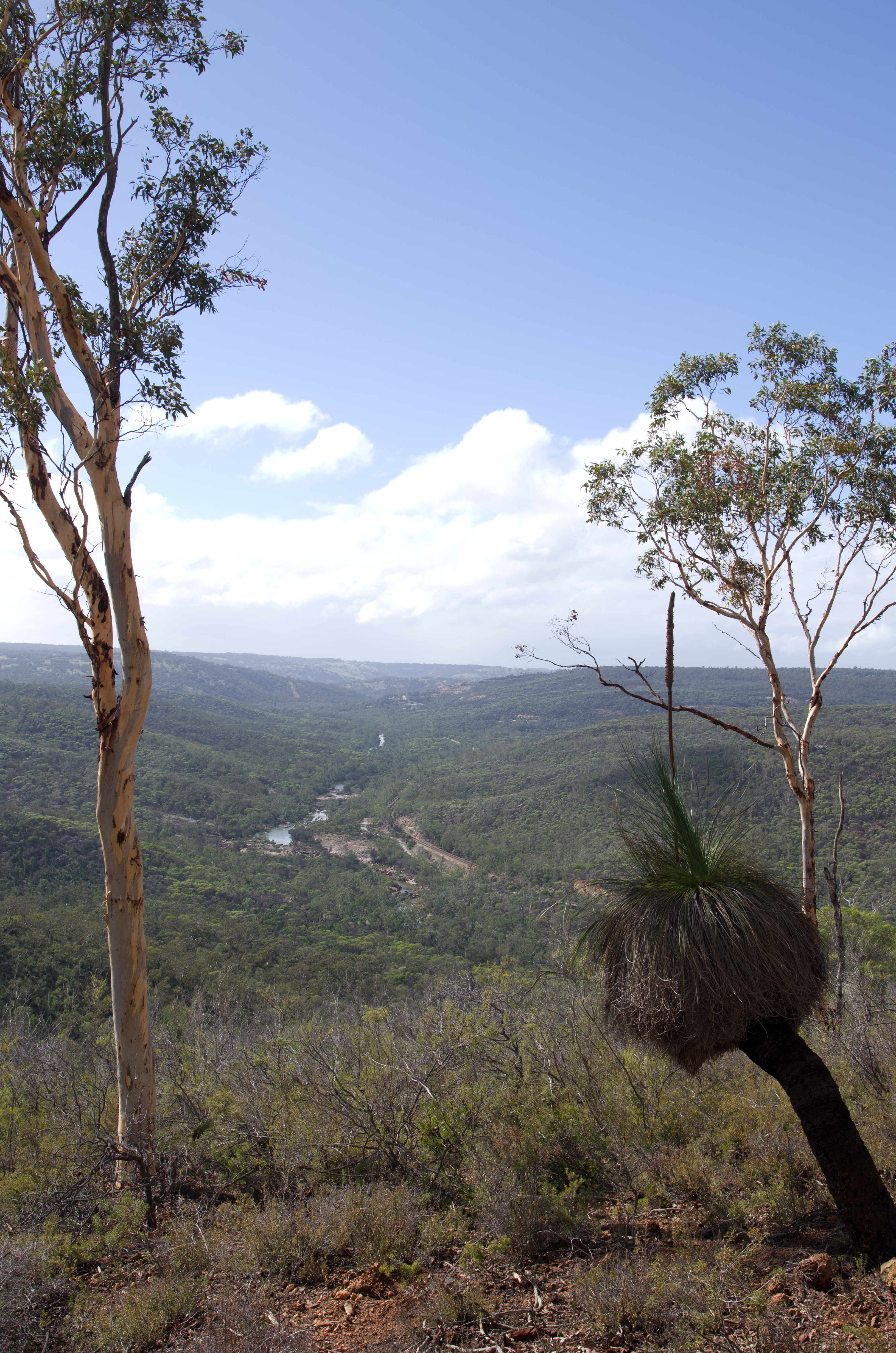 Avon Valley National Park Eucalyptus accedens(Powder-barked Wandoo) Xanthorrhoea(Grasstree) Avon River